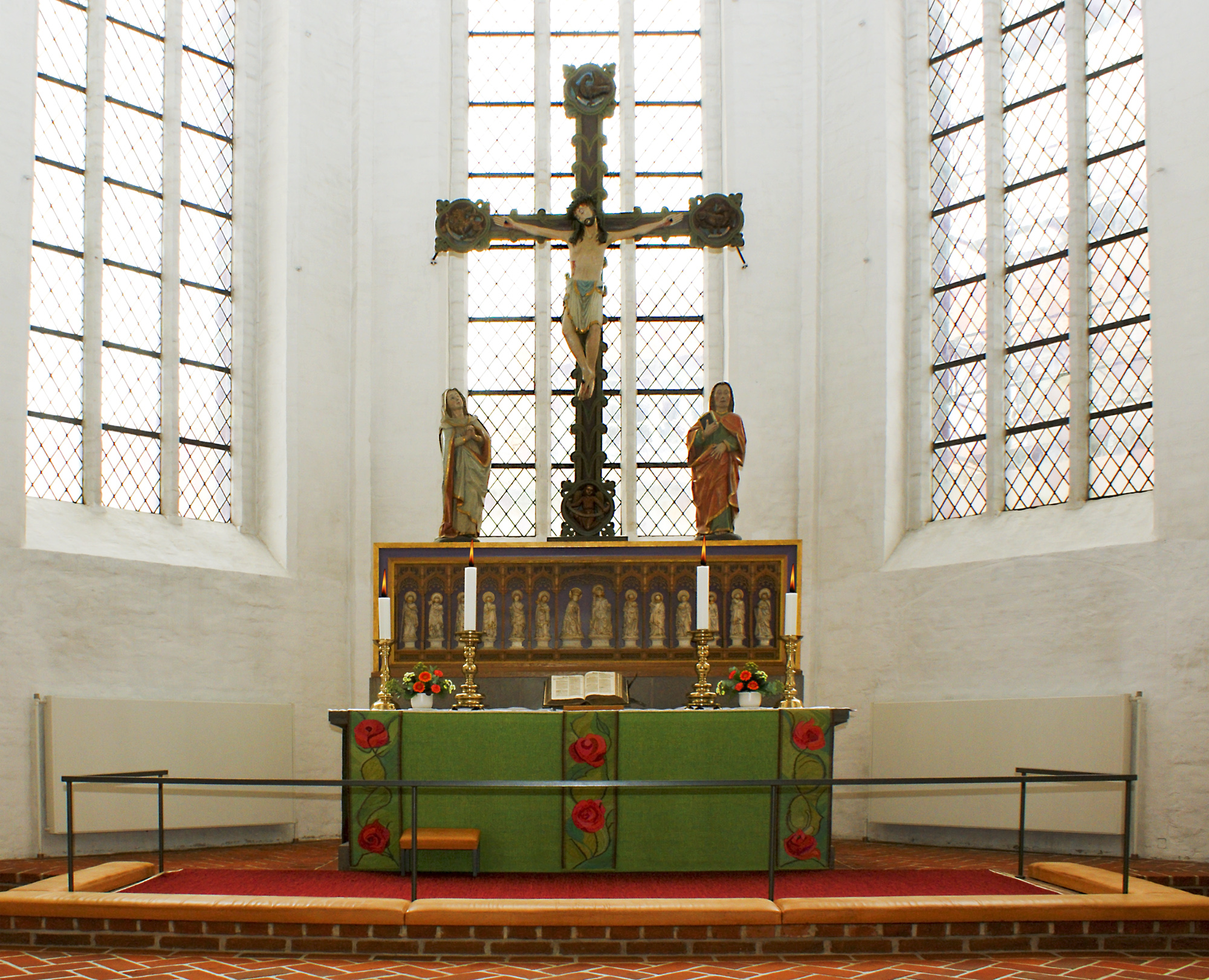 Altar Cathedral Haderslev, Denmark